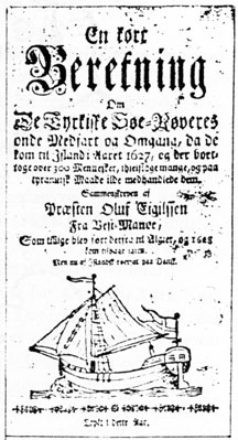 Cover of the book of Oluf Eigilsson (1628). Oluf Eigilsson was captured by Murat Reis the Younger (known as Morat Reis in the West) in 1627 at the island of Vestmannaeyjar near Iceland. He was taken to Algiers, but ransomed and released in 1628. After returning to Iceland, he wrote a book in Danish about his experience with the corsairs.